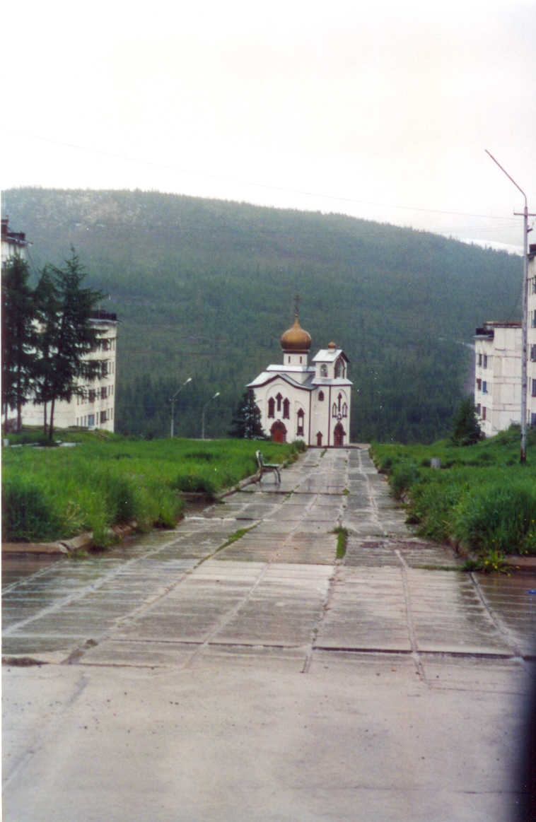 Annunciation church in Sinegorye